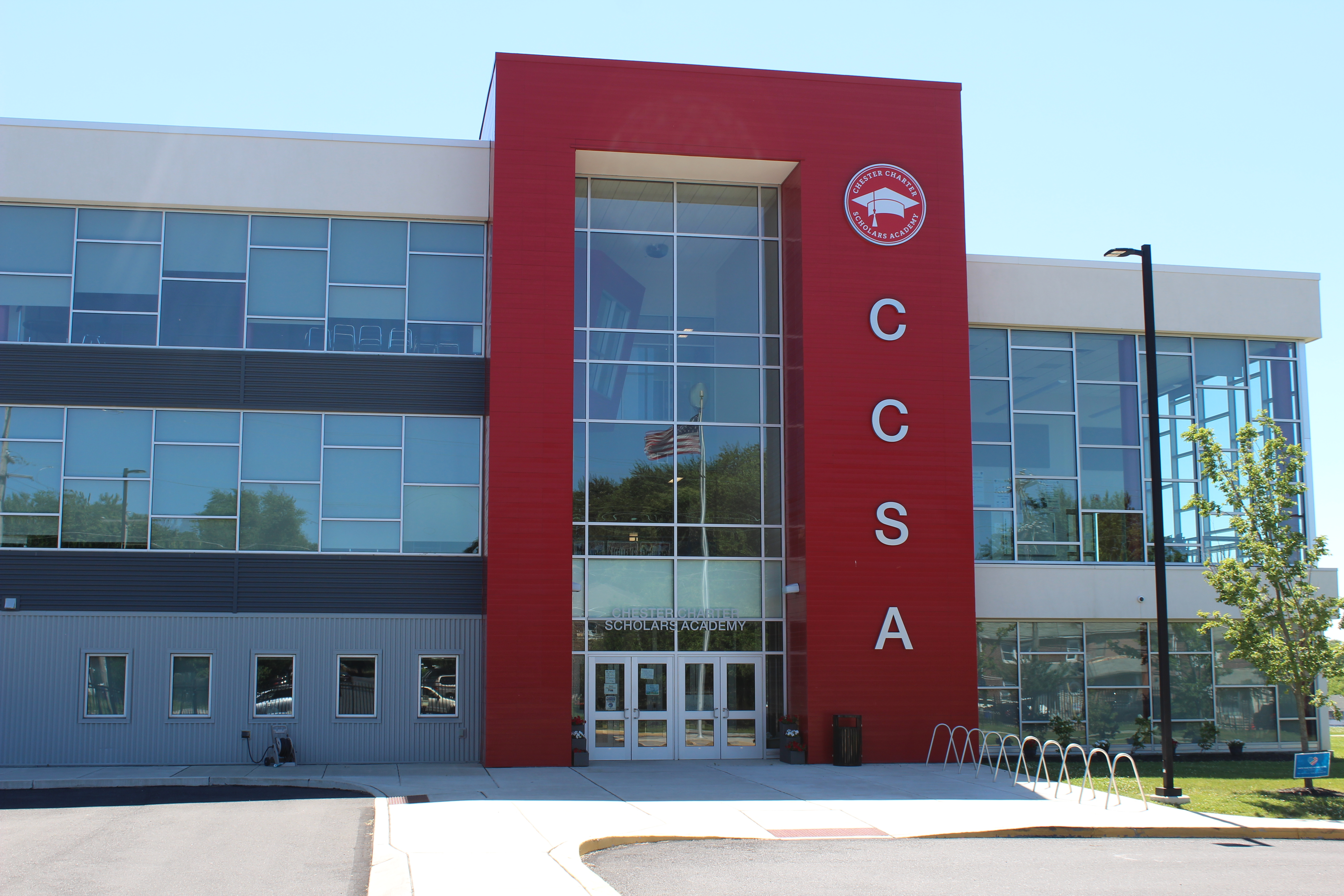 Chester Charter Scholars Academy in Chester, Pennsylvania. Photo taken June 2020.